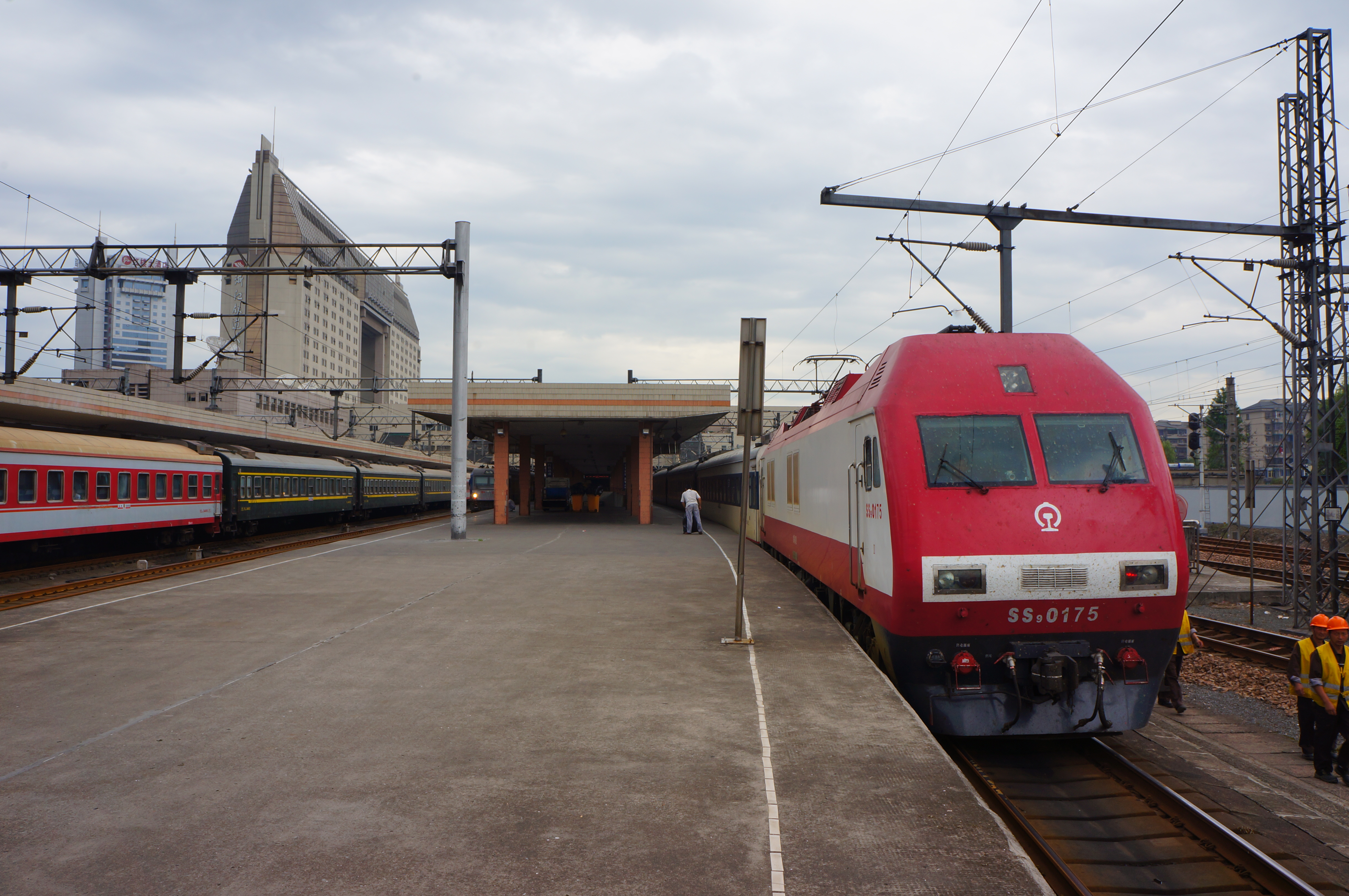 201606 Z9 arrived at Hangzhou Station